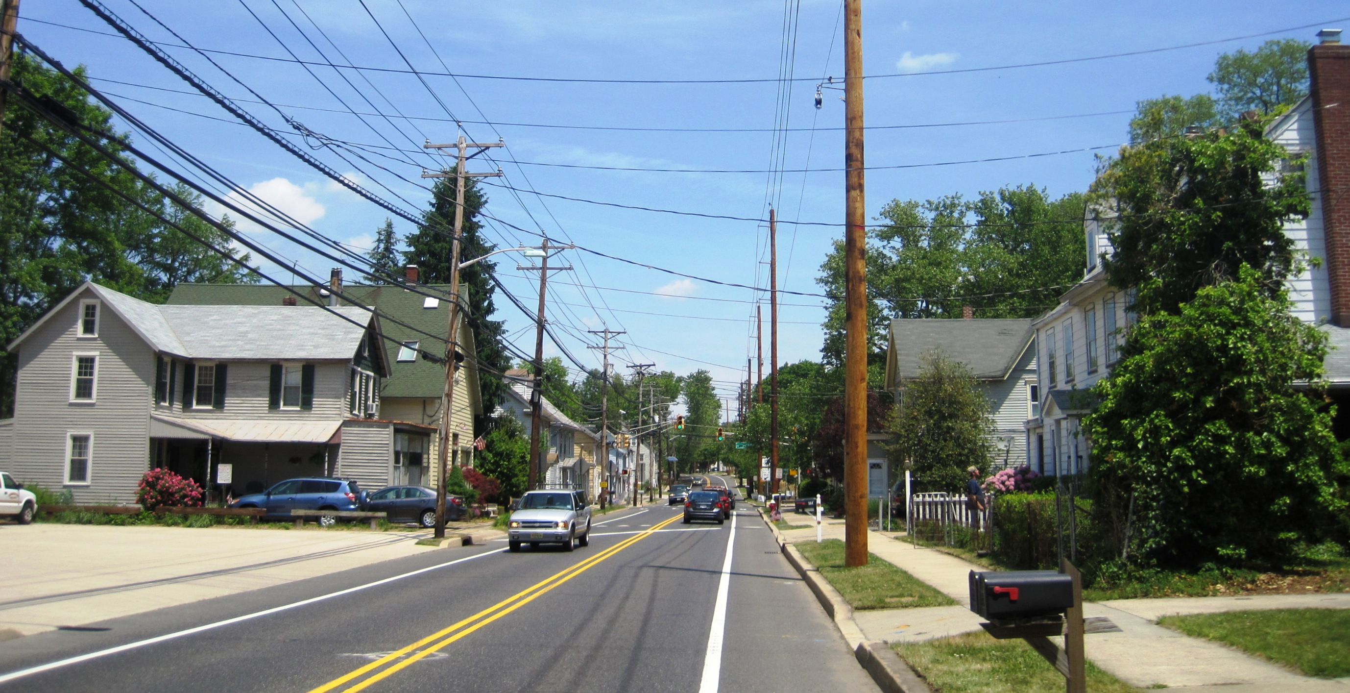 Photo of the center of Lumberton Township, New Jersey. Photo taken on northbound County Route 541 (Main Street) approaching Landing Road (CR 641).